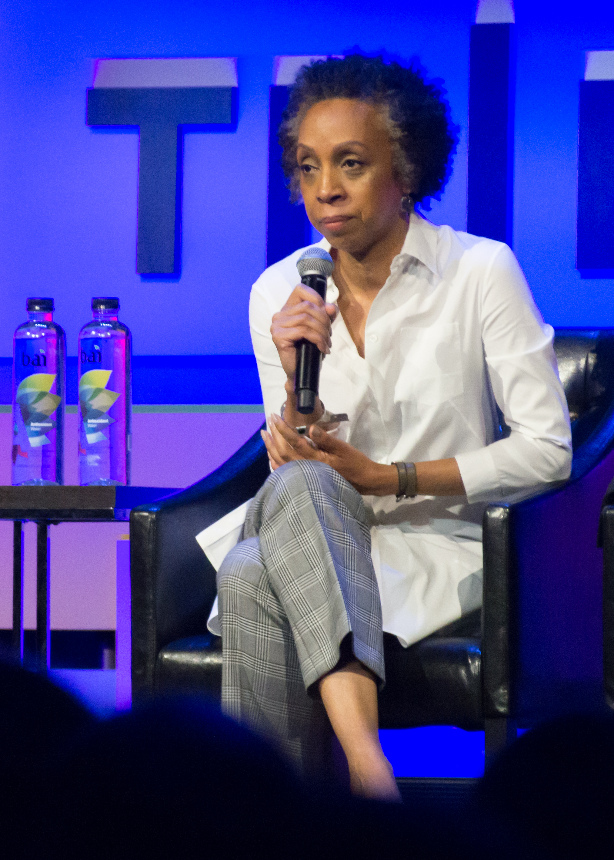 Nina Shaw at the Time's Up event at the 2018 Tribeca Film Festival (Tribeca Talks: Time's Up). A series of talks/performances about Time's Up/sexual harassment.